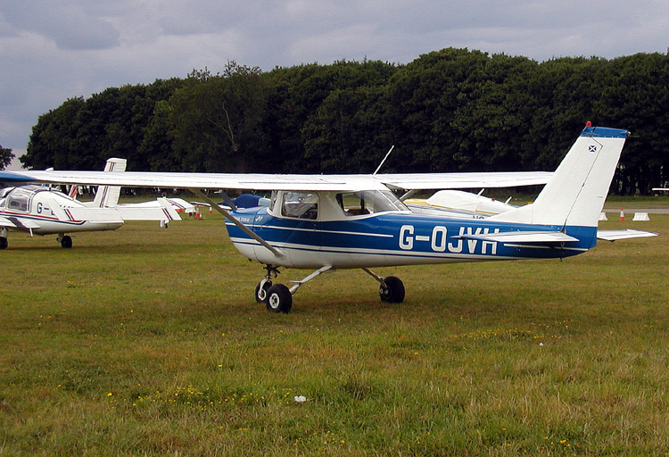 1968 Cessna F150H (G-OJVH) at Kemble Airfield, Gloucestershire, England in August 2003. Taken by Adrian Pingstone and released to the public domain.